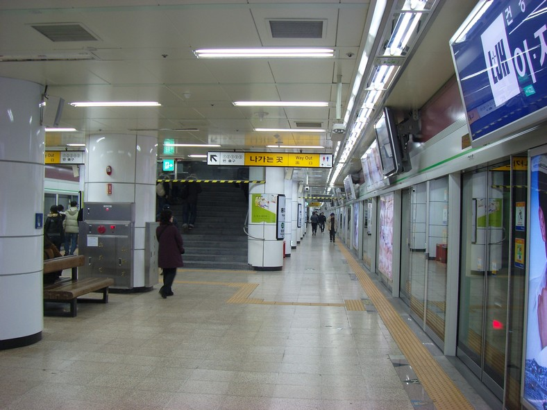 Hongik University Station